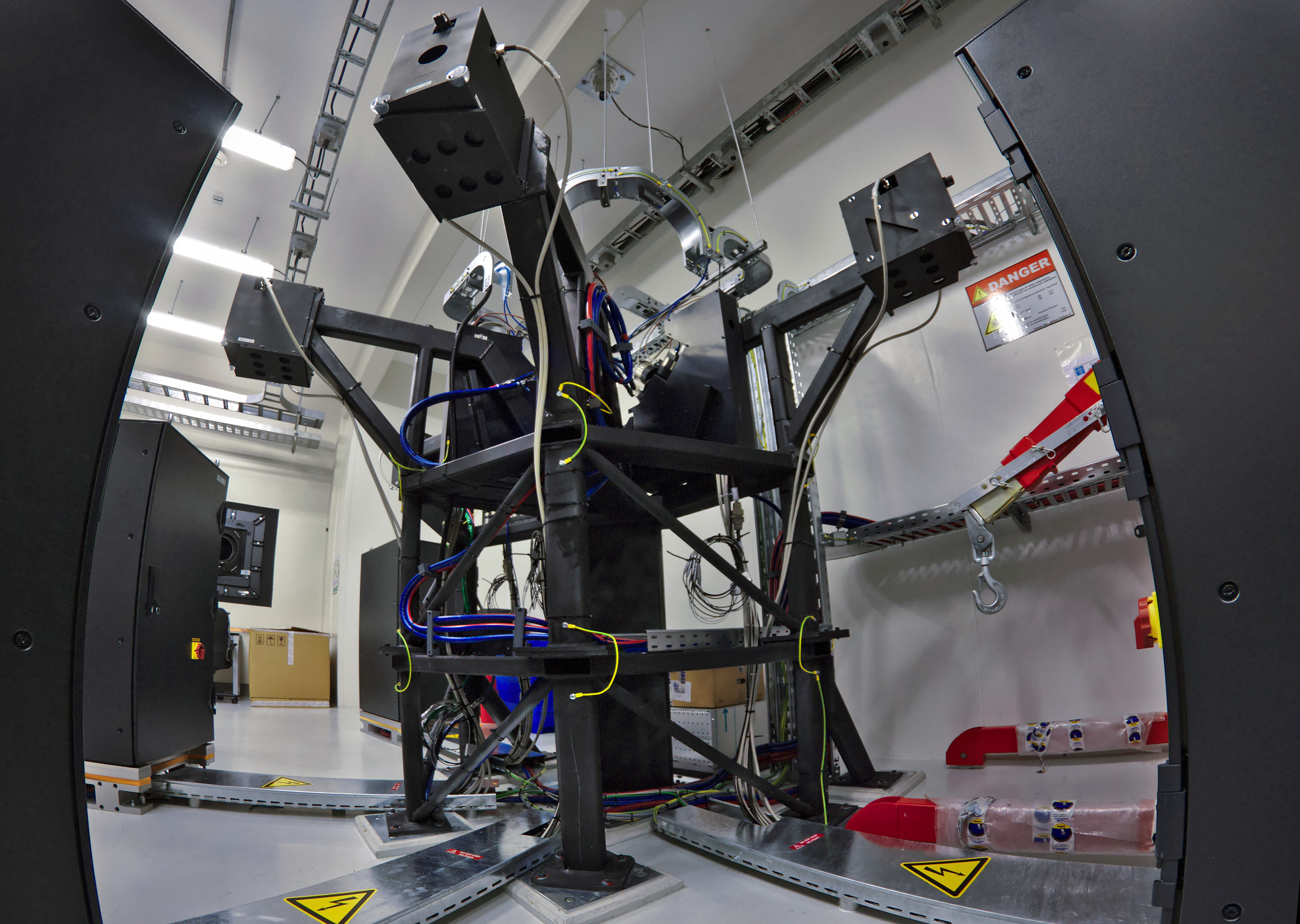 The Echelle SPectrograph for Rocky Exoplanet and Stable Spectroscopic Observations (ESPRESSO) successfully made its first observations in November 2017. Installed on ESO’s Very Large Telescope (VLT) in Chile, ESPRESSO will search for exoplanets with unprecedented precision by looking at the minuscule changes in the properties of light coming from their host stars. For the first time ever, an instrument will be able to sum up the light from all four VLT telescopes and achieve the light collecting power of a 16-metre telescope. This picture shows the front-end structure where the light beams coming from the four VLT Unit Telescopes are brought together and fed into fibres, which in turn deliver the light to the spectrograph itself in another room.